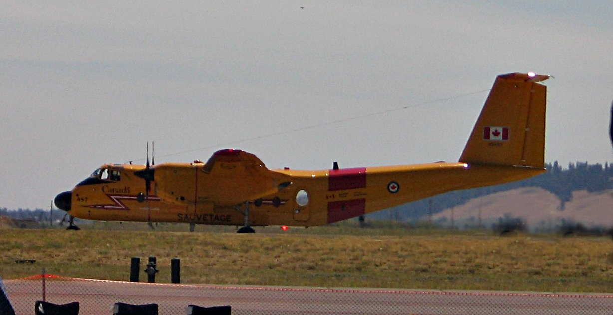 A DHC-5 "Buffalo" cargo airplane taxiing, photographed at the Spokane Skyfest airshow